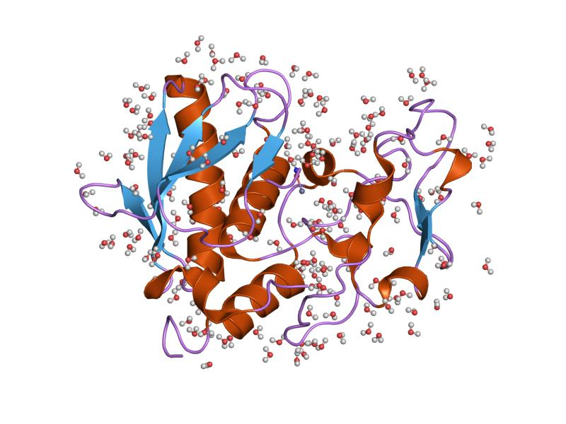 Cartoon representation of the molecular structure of protein registered with 1qjj code.